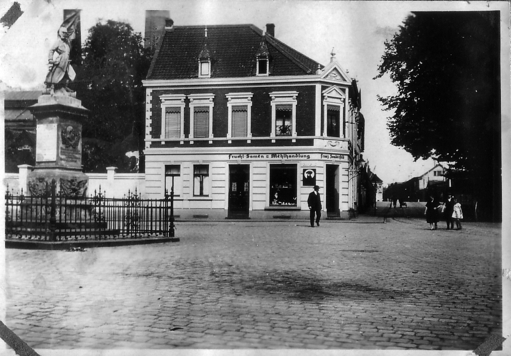 Kleiner Markt with War Memorial approximately 1925